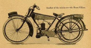 Engraving or sketch of the Bownian accompanying report of Olympia Show